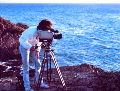 Ron Roy is shooting "Ocean Reflections" (Moodtapes album)